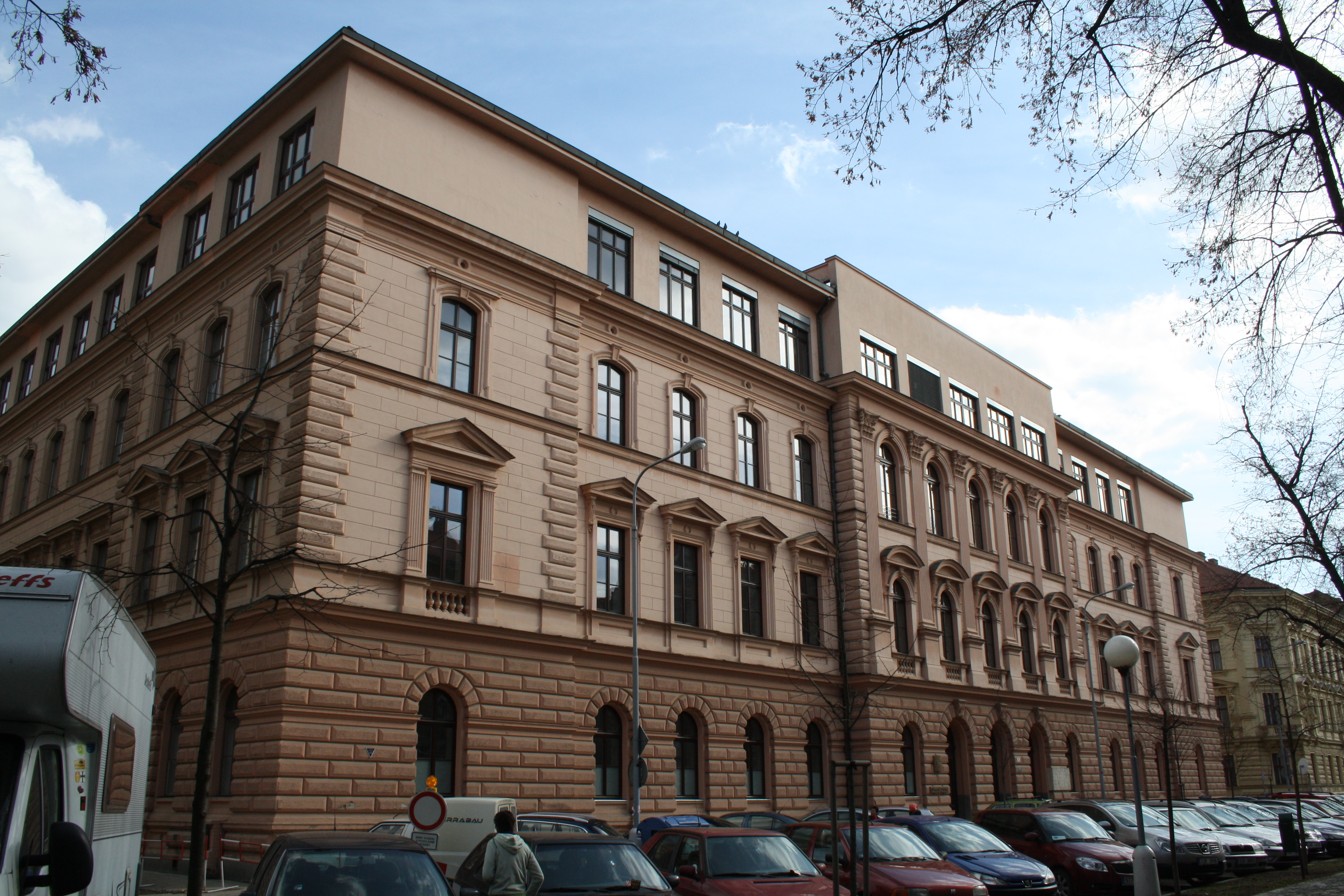 Grammar school in Brno - Tř. Kpt. Jaroše..